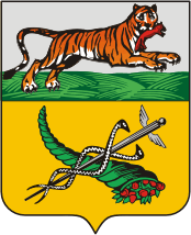 Ulan-Ude (Verkhneudinsk, Buryatia), coat of arms (1790)